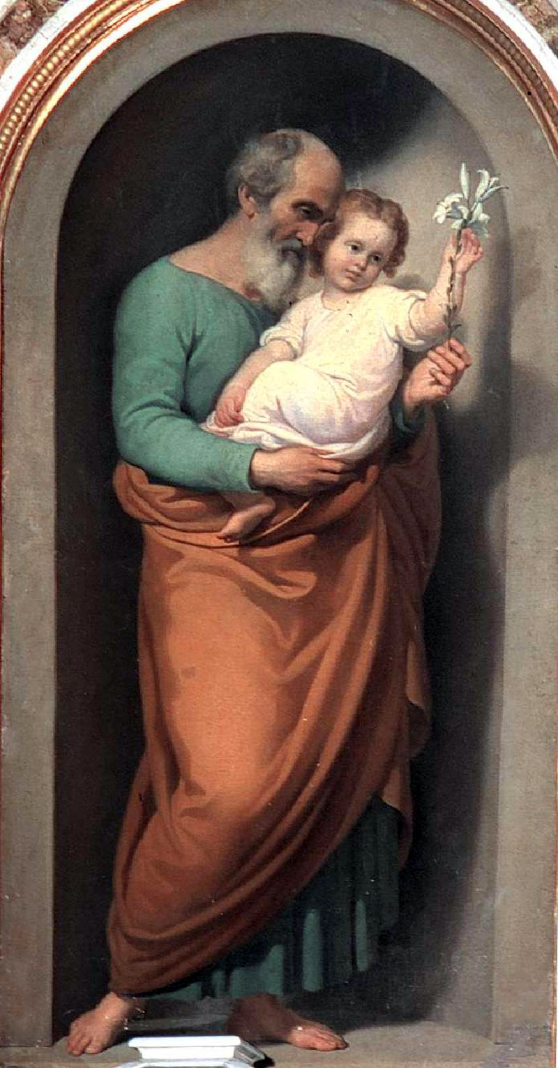 Saint Joseph with Jesus Christ as a baby